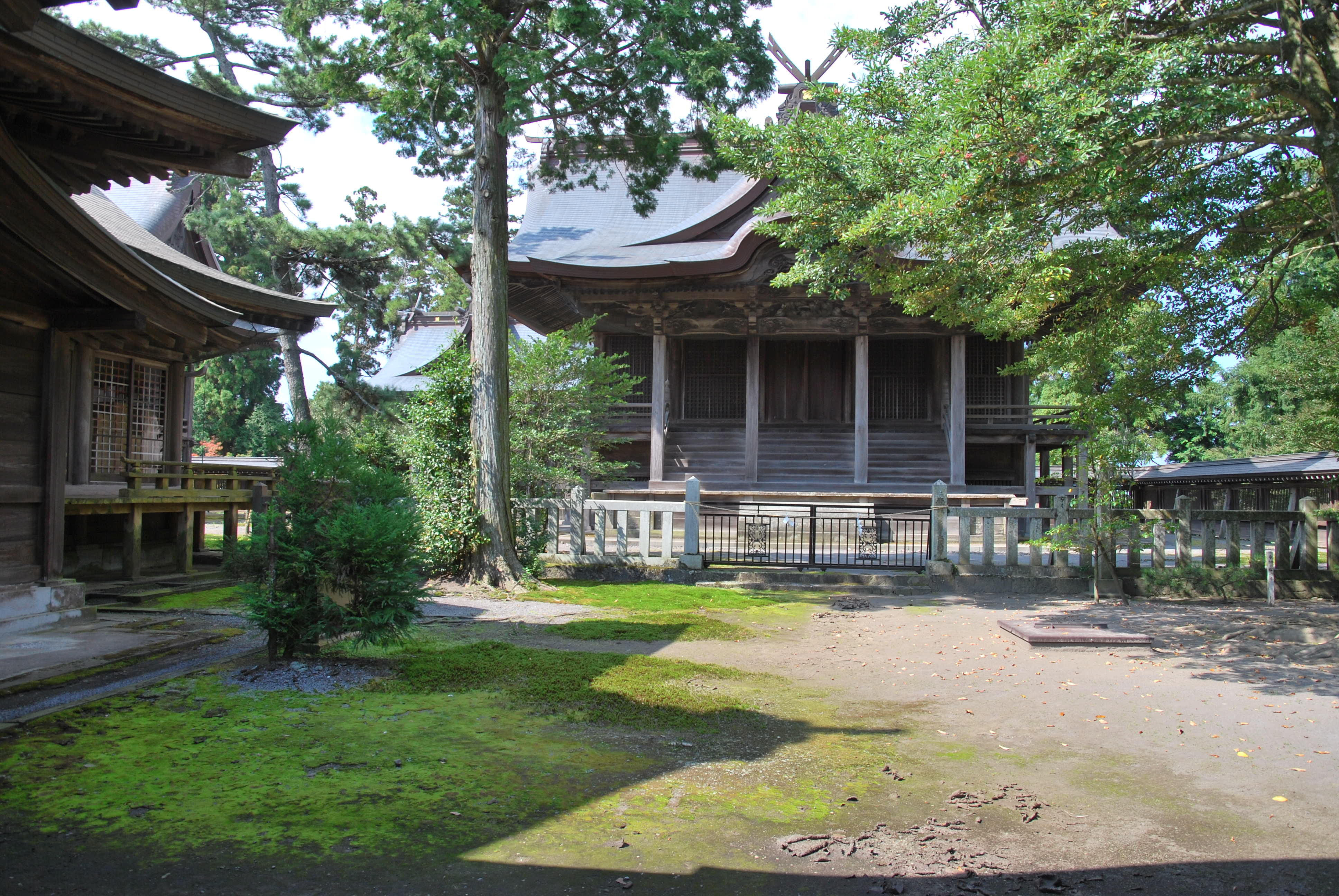 Ni-no-shinden (Japan's national important cultural property), Aso-jinja